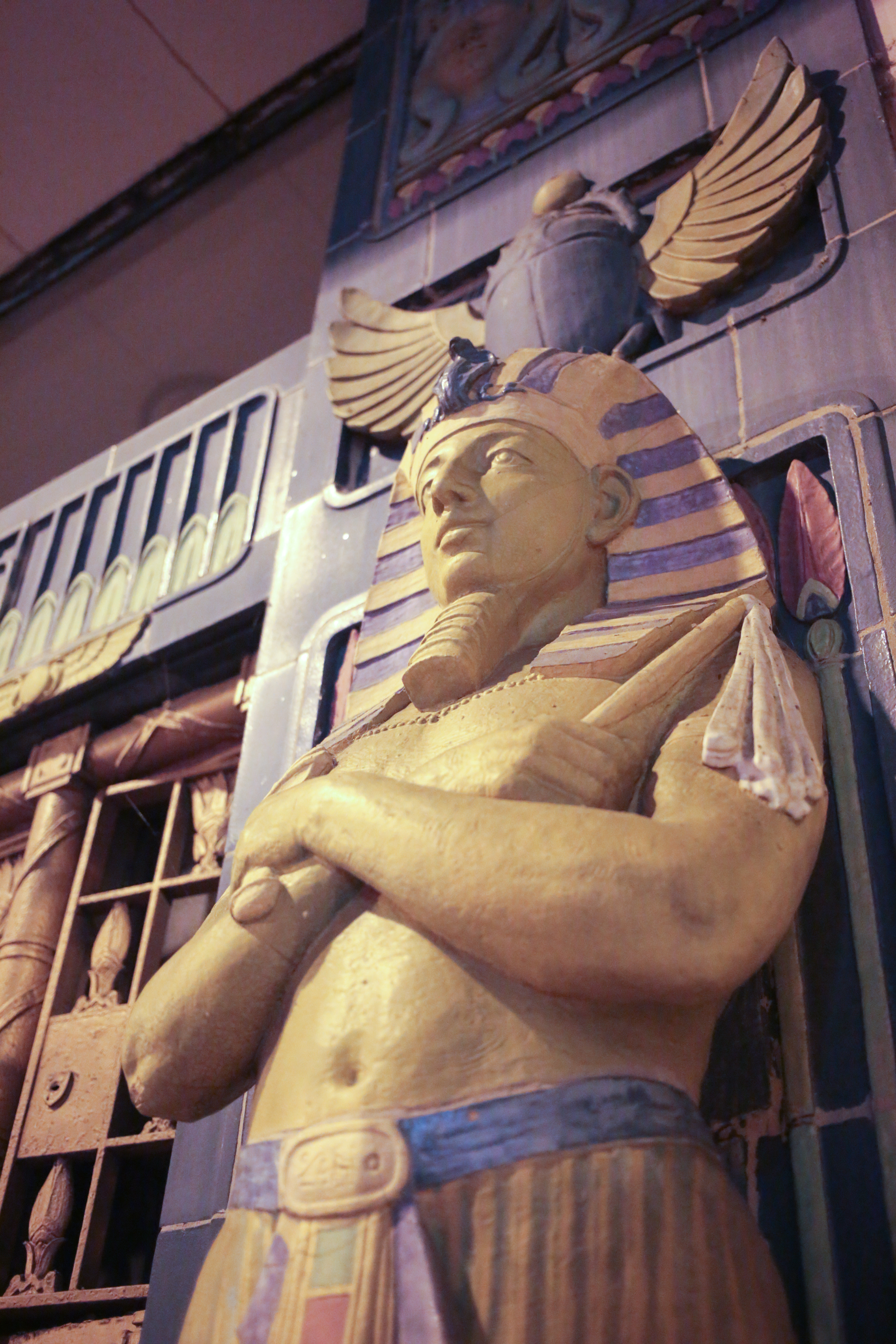 Reebie Storage, Chicago September 2, 2013